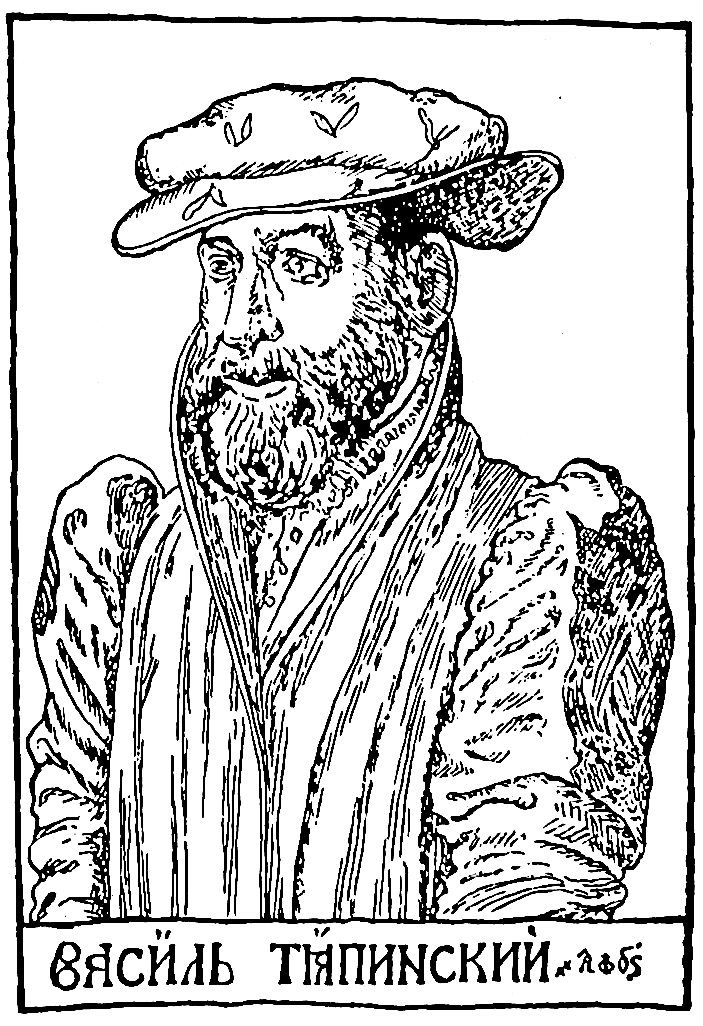 Vasil Tiapinskiy